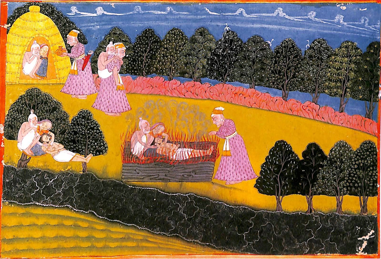 King Dasharatha cremates Shravana and his aged Parents; Ascribed to Laharu of Chamba